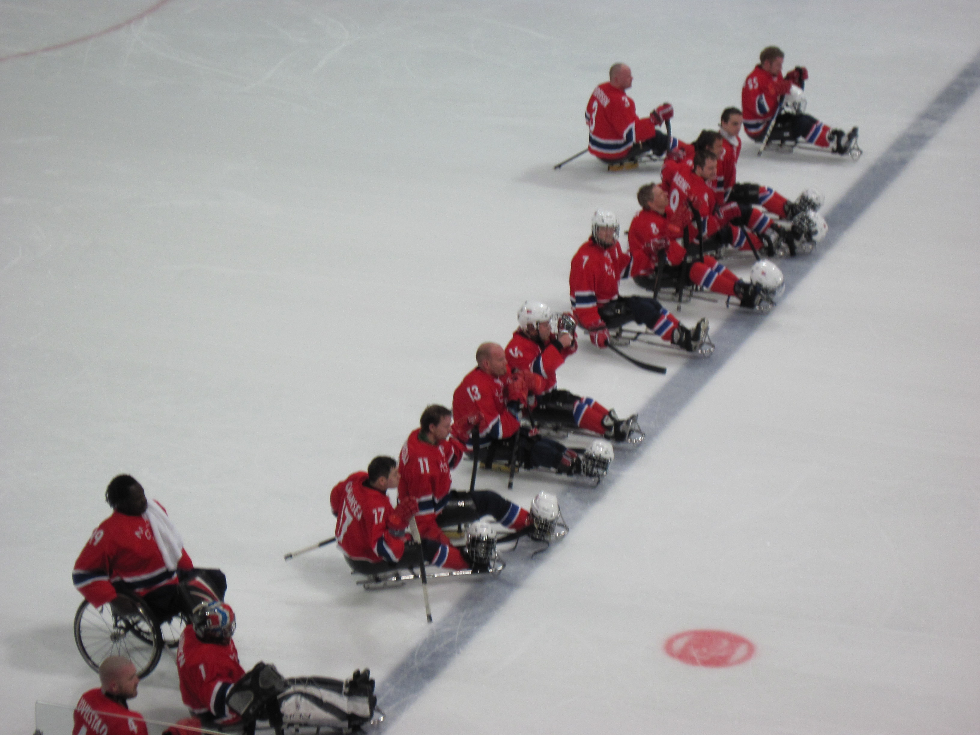 Norway's Ice Sledge Hockey team at the UBC Thunderbird Winter Sports Centre, Vancouver, British Columbia, Canada, during the Winter Paralympics 2010.